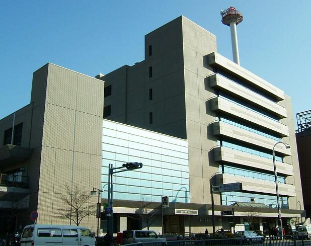 Nakamura Showa Office in Hall in Nagoya City, Japan